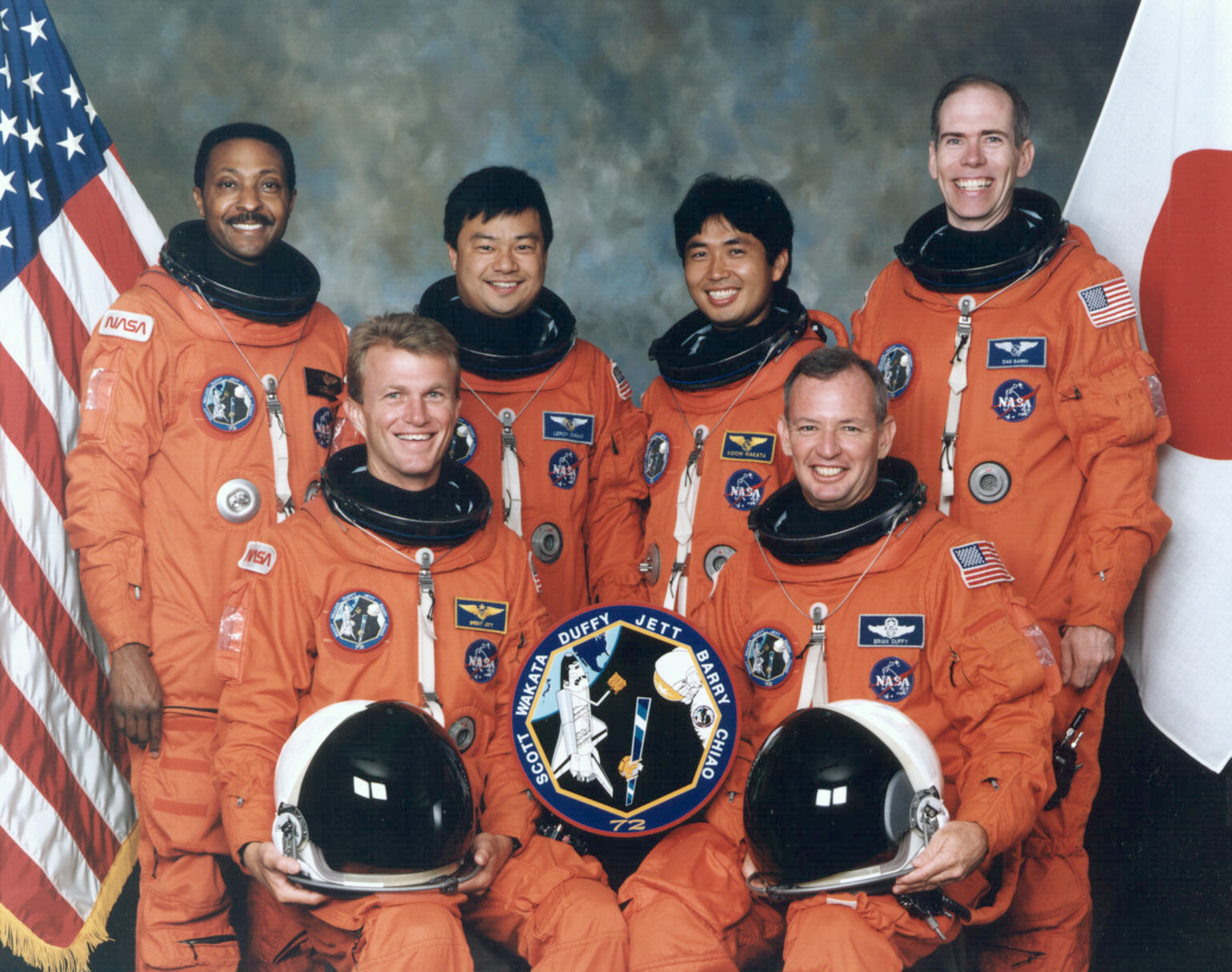 Six astronauts composed the crew for the STS-72 mission that launched aboard the Space Shuttle Endeavour on January 11, 1996. Astronauts Brian Duffy (right front) and Brent W. Jett (left front) are mission commander and pilot, respectively. Mission specialists (back row, left to right) are Winston E. Scott, Leroy Chiao, Koichi Wakata, and Daniel T. Barry. Wakata is an international mission specialist representing Japan's National Space Development Agency (NASDA) based at the Johnson Space Center (JSC). Mission objectives included the retrieval of the Japanese Space Flyer Unit (SFU), and the deployment of the Office of Aeronautics and Space Technology-Flyer (OAST-Flyer).